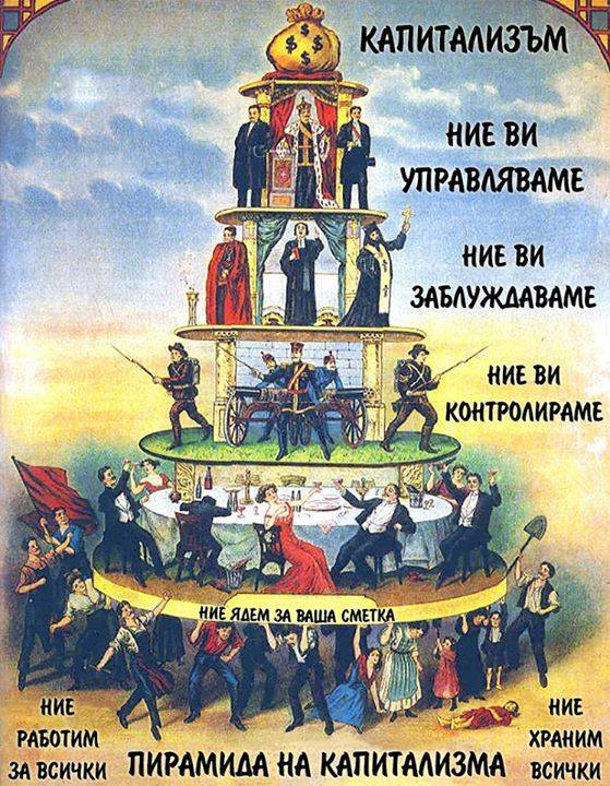 Bulgarian translation of File:Pyramid of Capitalist System.png